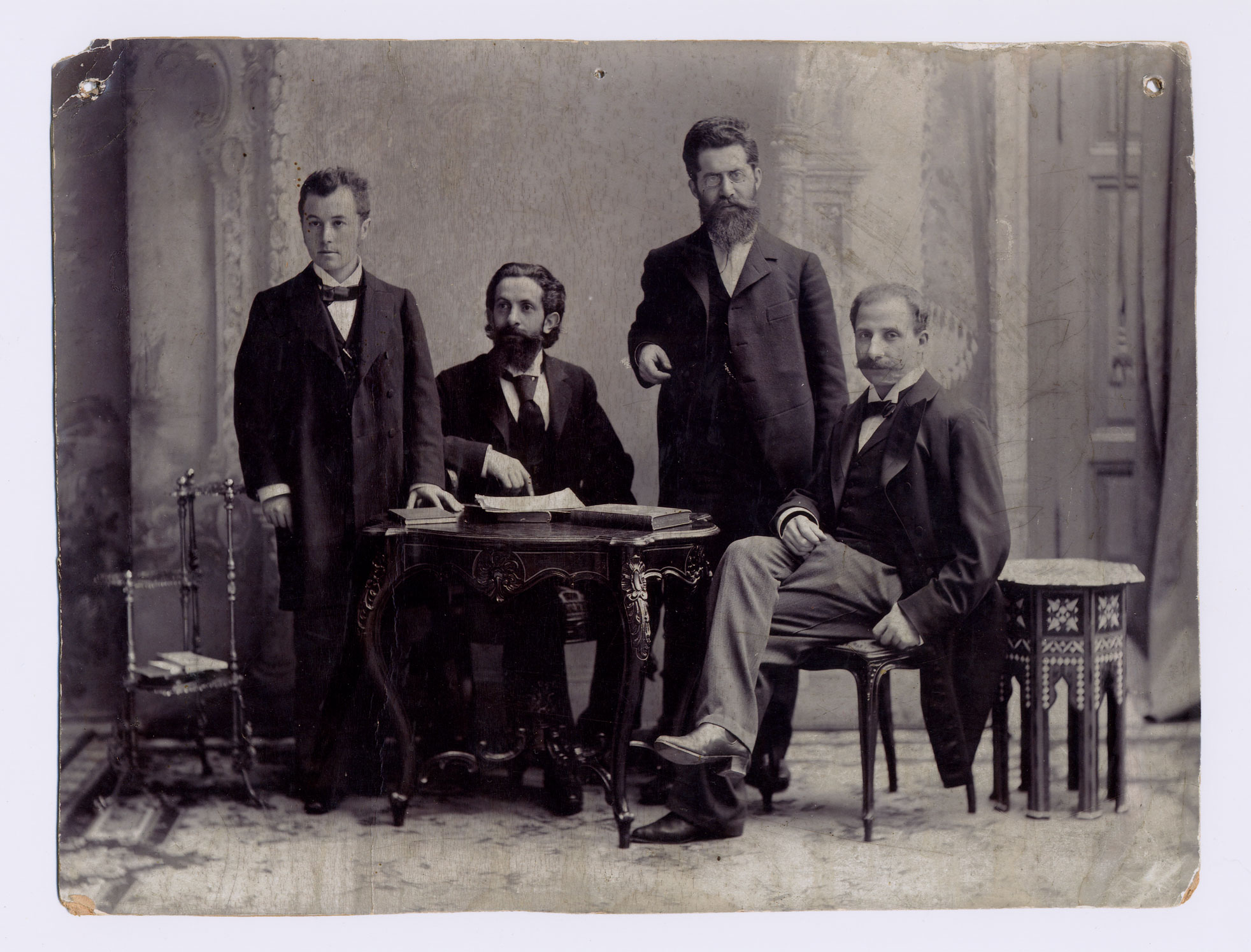 From left to right (standing) Dr S. Kalischer, (sitting) Dr Edward Flatau, (standing) Dr L. Jacobsohn-Lask, (sitting) Dr B. Pollack. Circa 1900 in Berlin. From archive of Lask family.